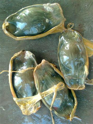 Zebra shark (Stegostoma fasciatum) egg cases, from Kochi, India